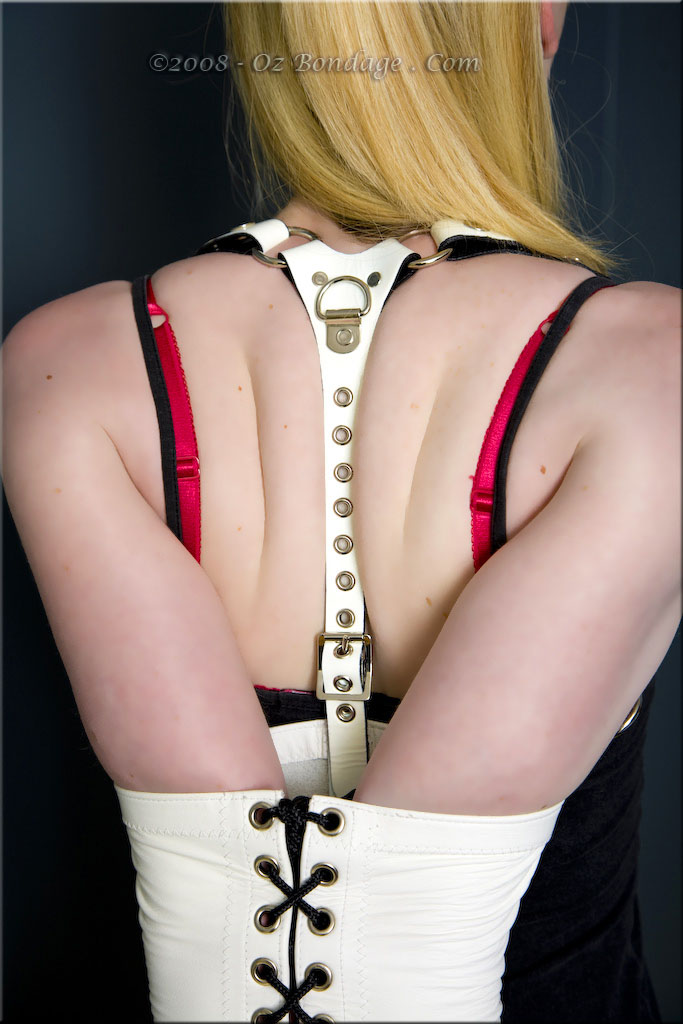 This is an image of a White Leather Monoglove Armbinder. It has been custom sized for the model, hence the exacting fit. Her arms are touching from her elbows down to her wrists inside the Armbinder.